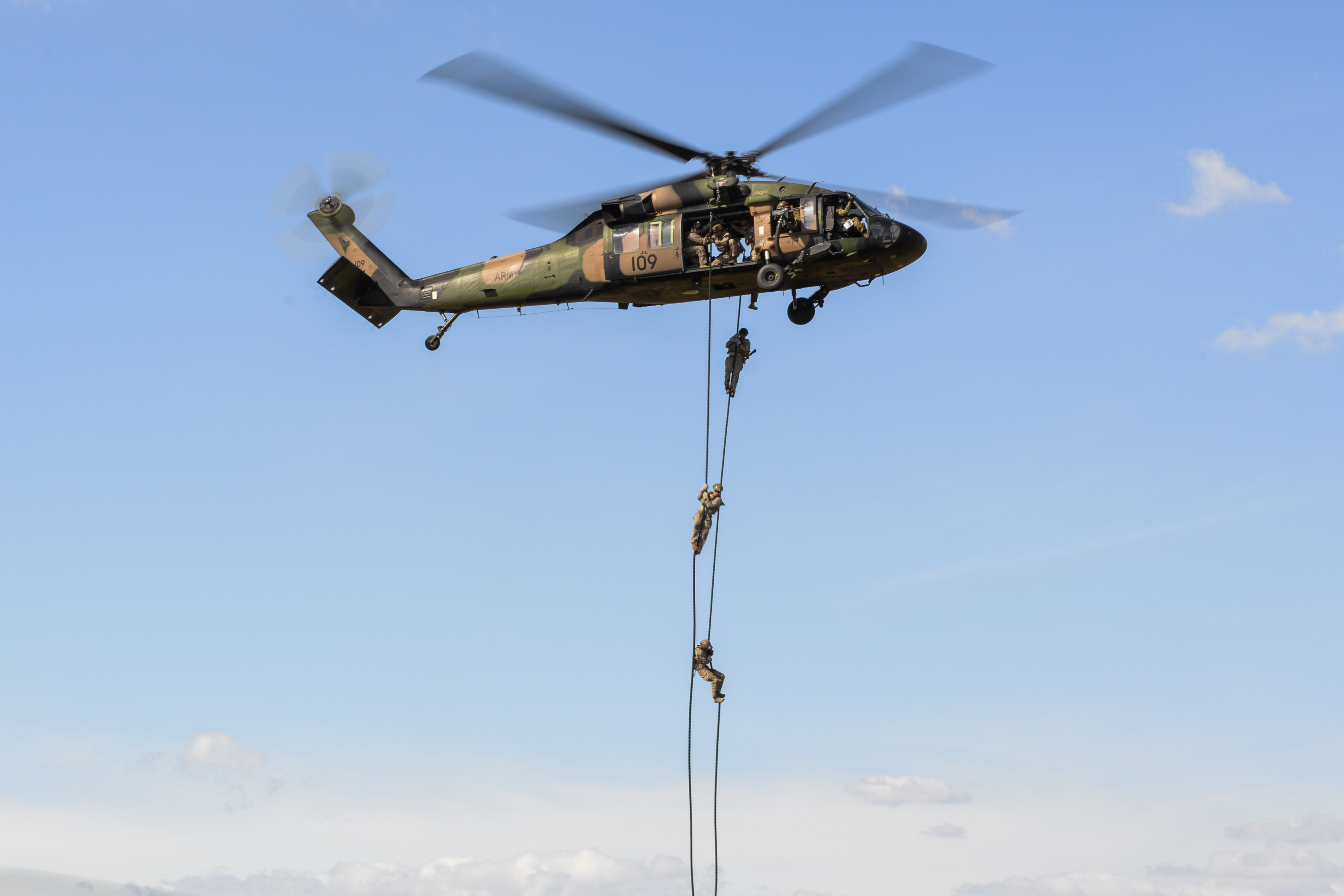 Members from the Australian Army 2nd Commando Regiment fast rope from an S-70A-9 Black Hawk from the Australian Army 171st Aviation Squadron during exercise Talisman Sabre in Northern Territory, Australia, July 3, 2015. Exercises such as Talisman Sabre offer a uniquely complex and challenging multinational environment for our forces to hone their skills. (U.S. Air Force photo by Senior Airman Stephen G. Eigel)